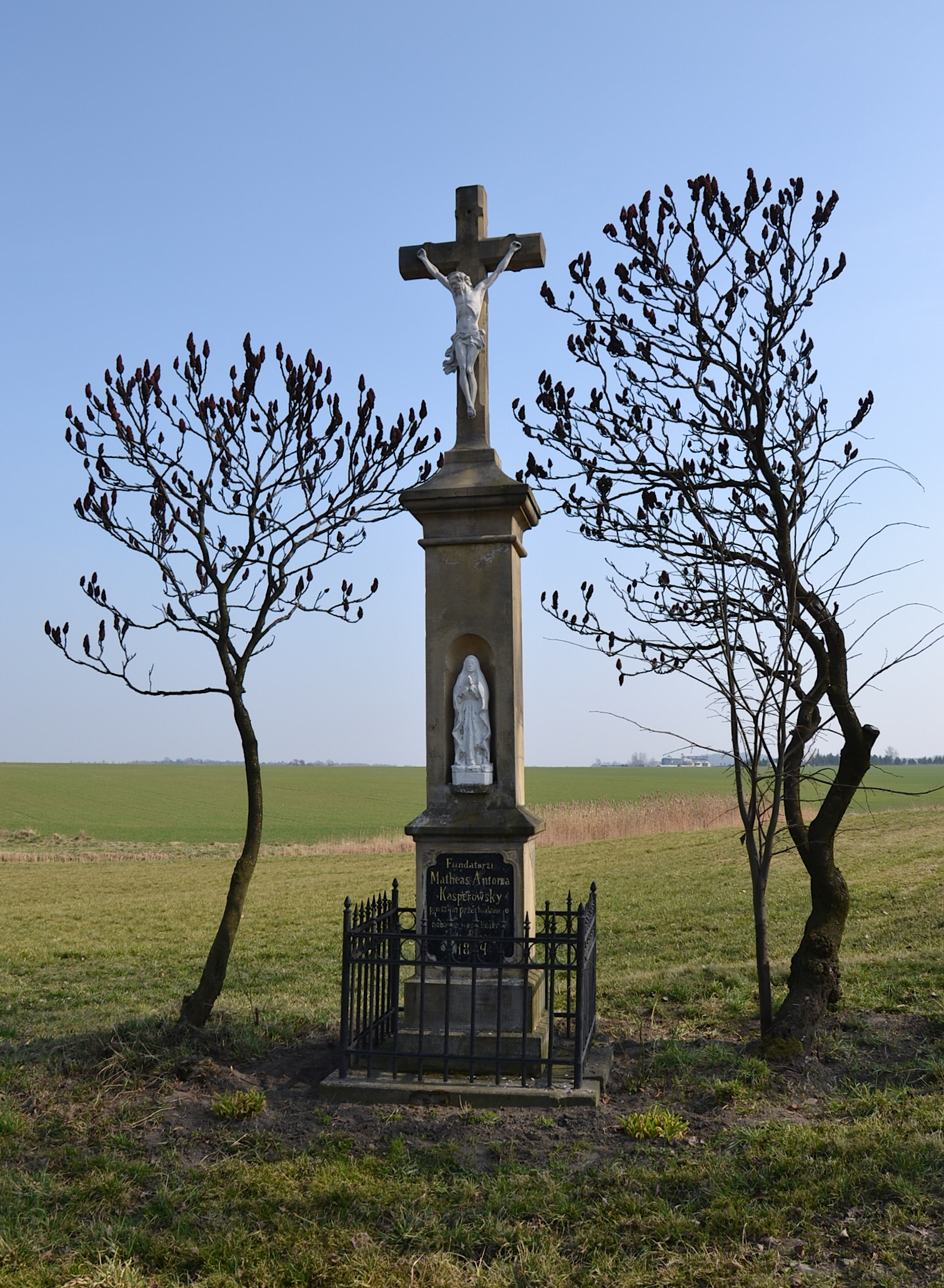 Bujaków (Bujakow), Upper Silesia - wayside cross from 1884 y.